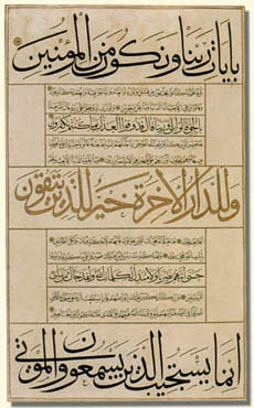 Sura Al-An-'am written in "muhakkak", "sülüs" and "nesih" calligraphic styles by Ahmed Karahisari